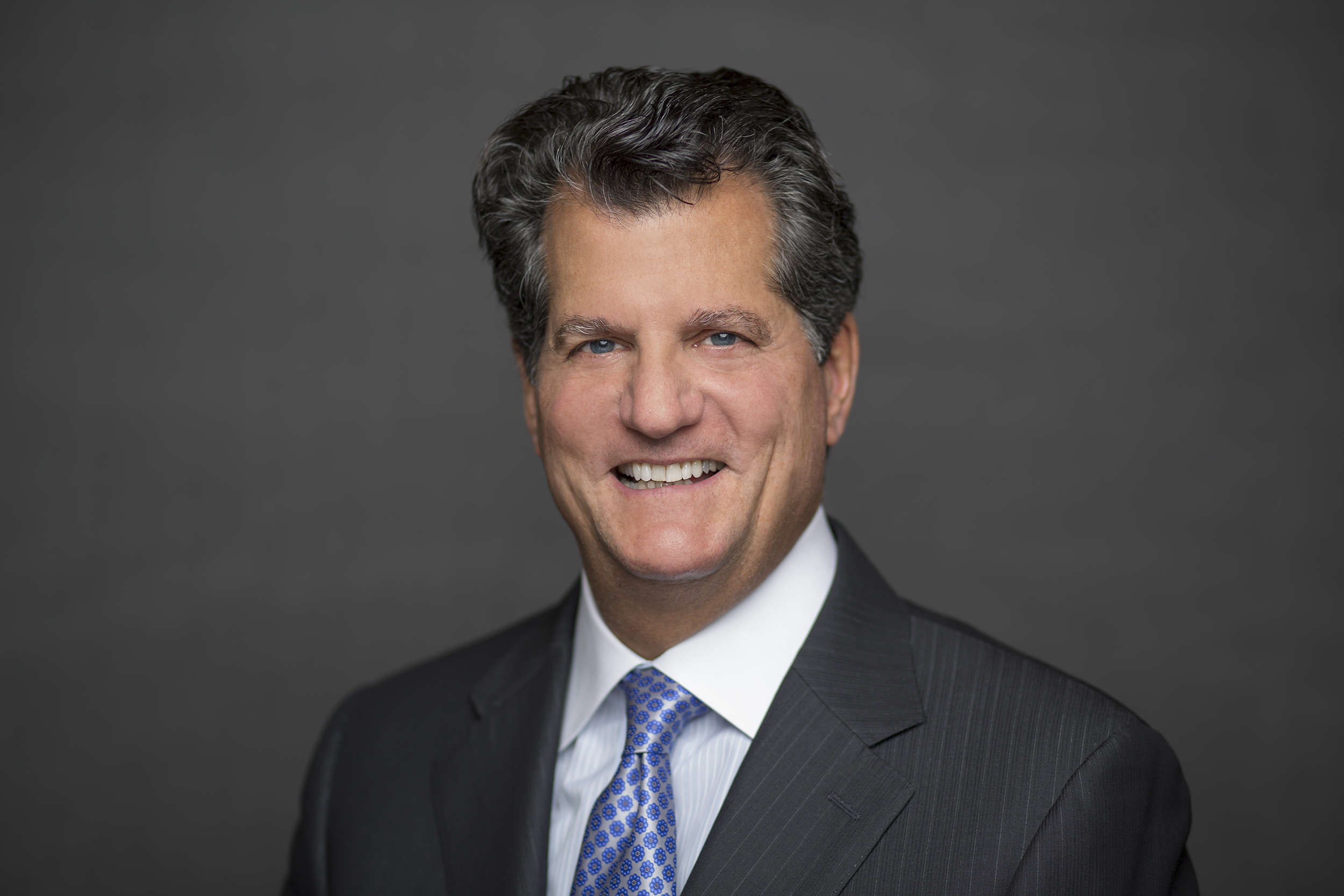 Photograph of Christopher D. Pappas, Trinseo CEO and chair of SCI America